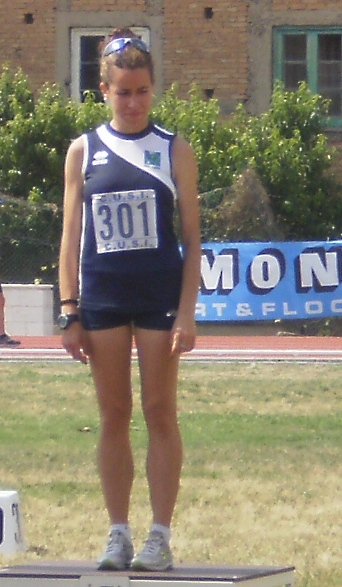 Director Eleonora Anna Giorgi at Messina in 2012